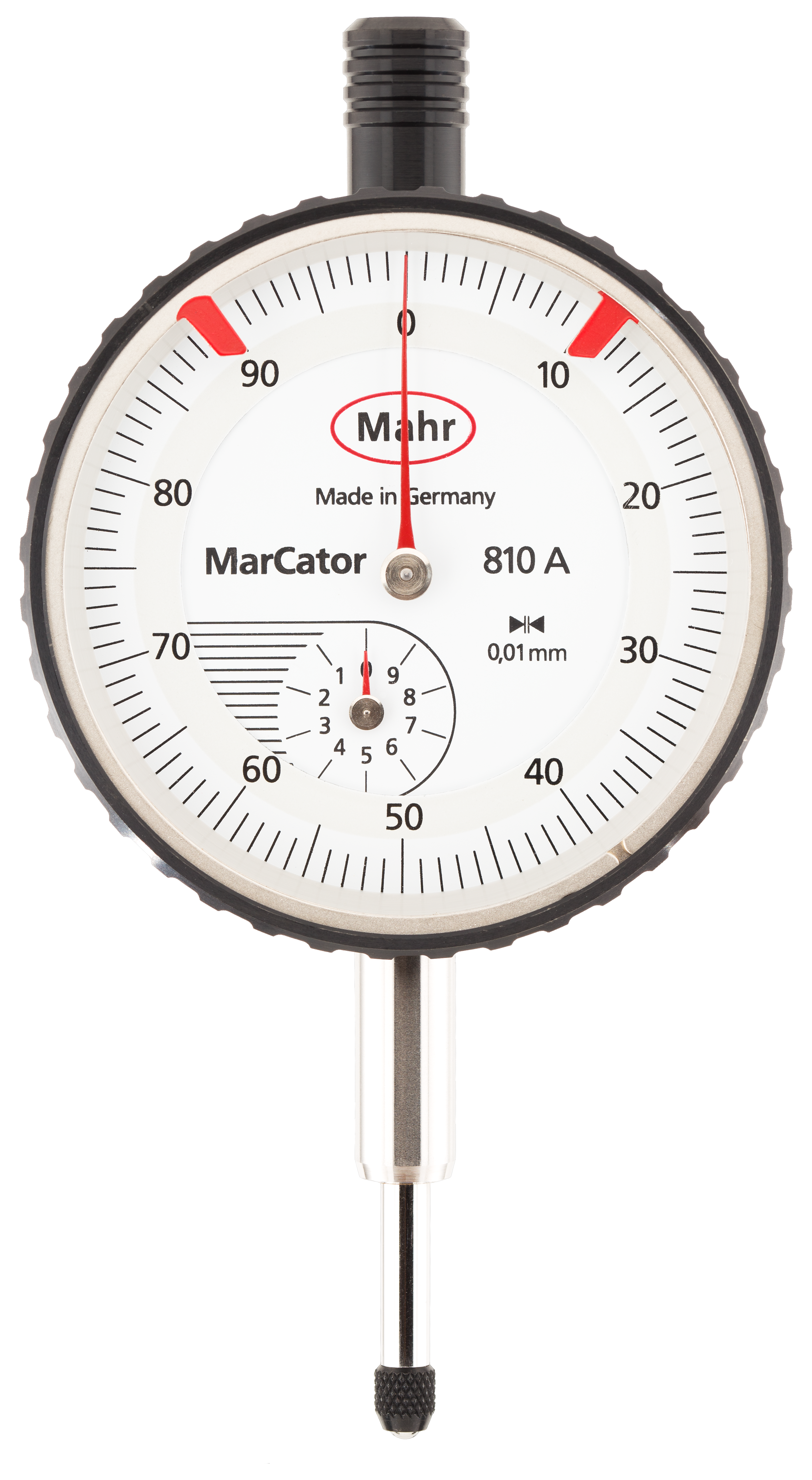 Mahr MarCator 810 A dial indicator, 10 mm range, 0.01 mm scale.